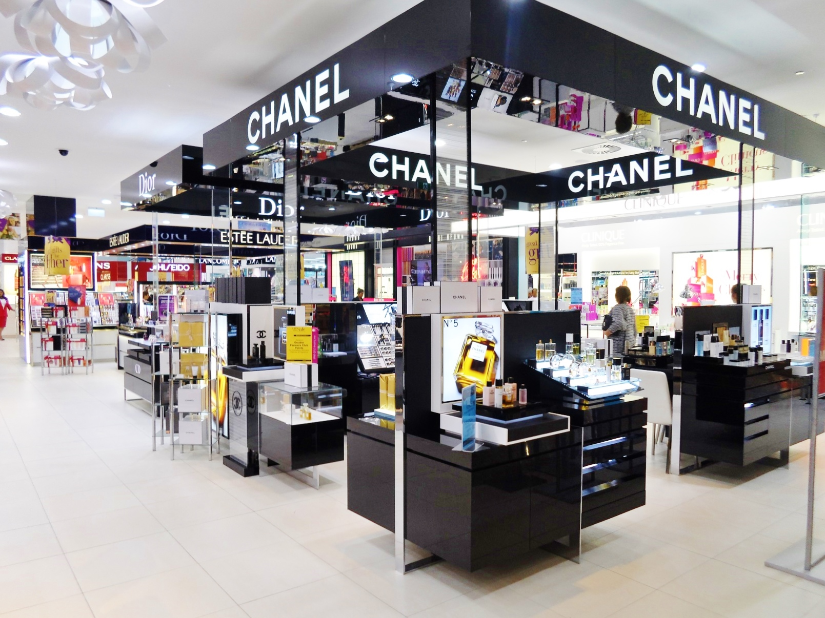 Serviced Cosmetics department at New Zealand department store Farmers at Centre Place shopping centre in Hamilton, New Zealand in 2013.